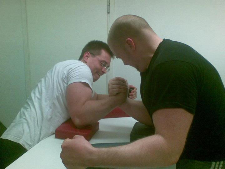 Hook armwrestling